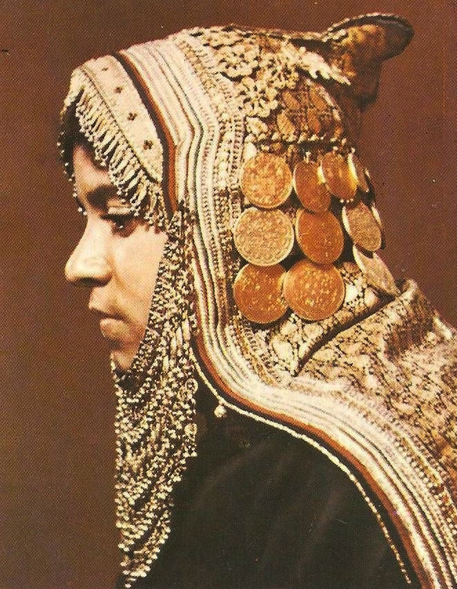 Yemenite Jewish girl wearing Gargush, early 20th century